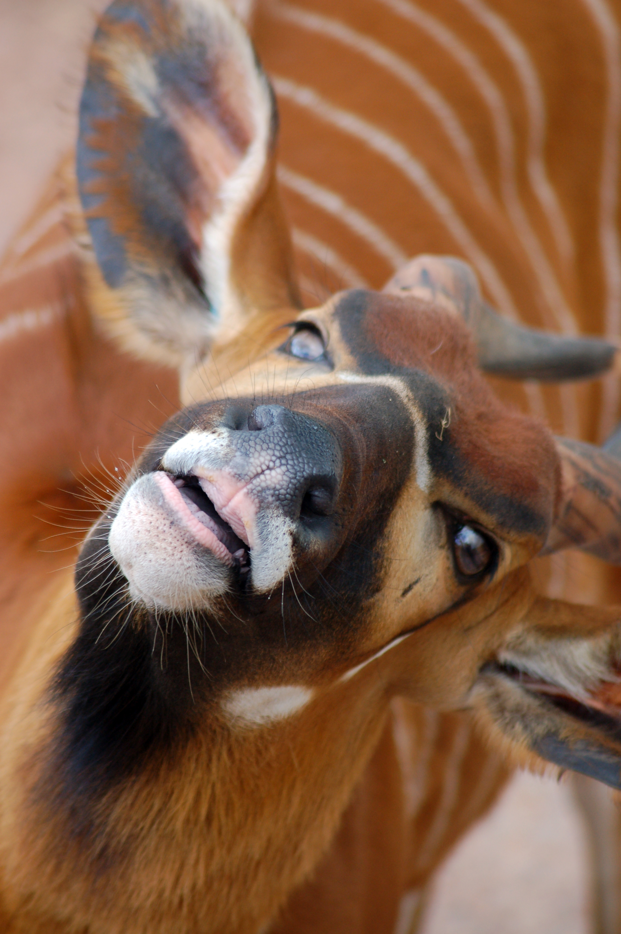 Eastern Bongo Antelope